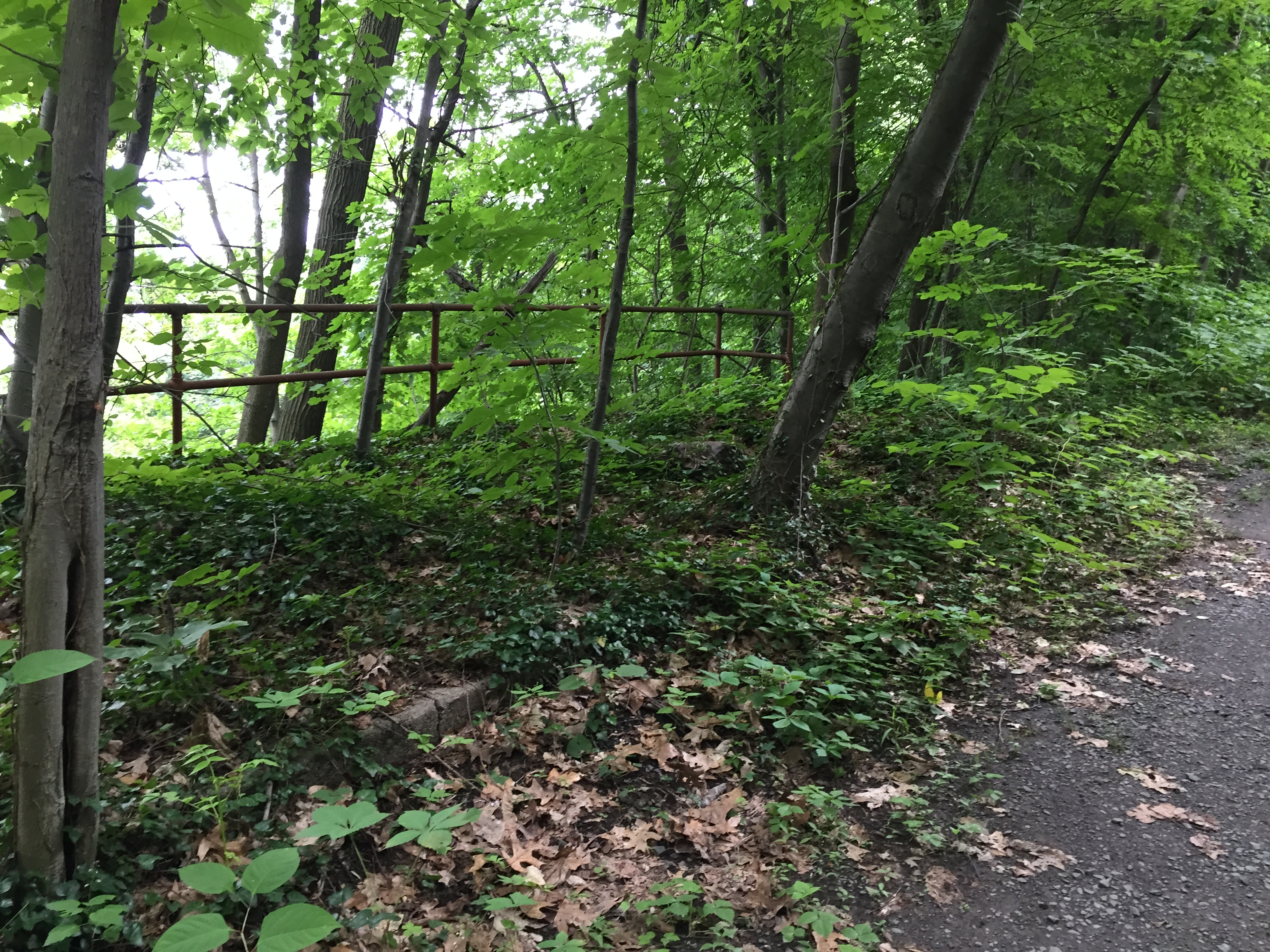 Platform ruins, Grandview-on-Hudson, NY